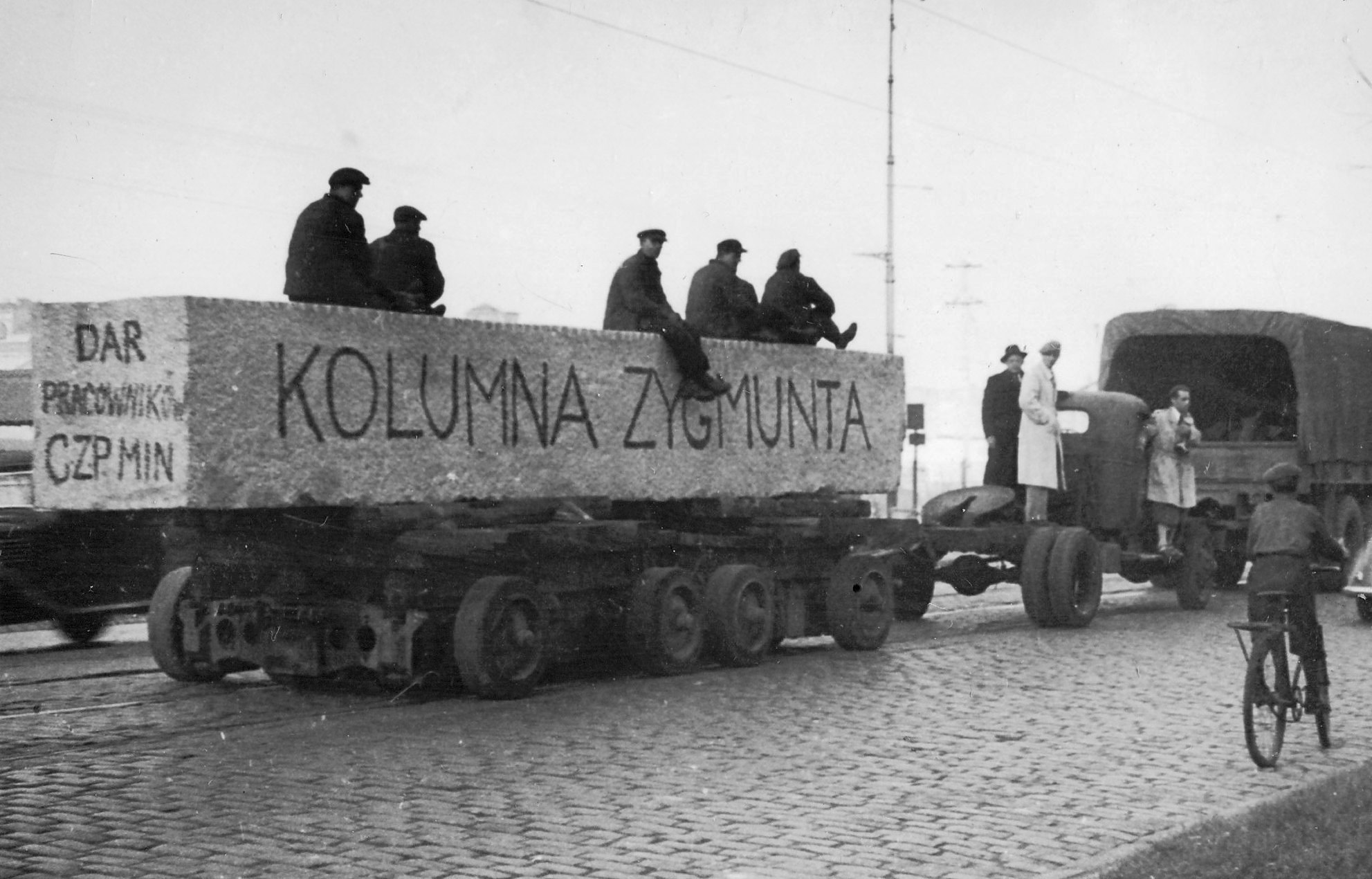 Transport of new Zygmunt's Column to Royal Castle in Warsaw.